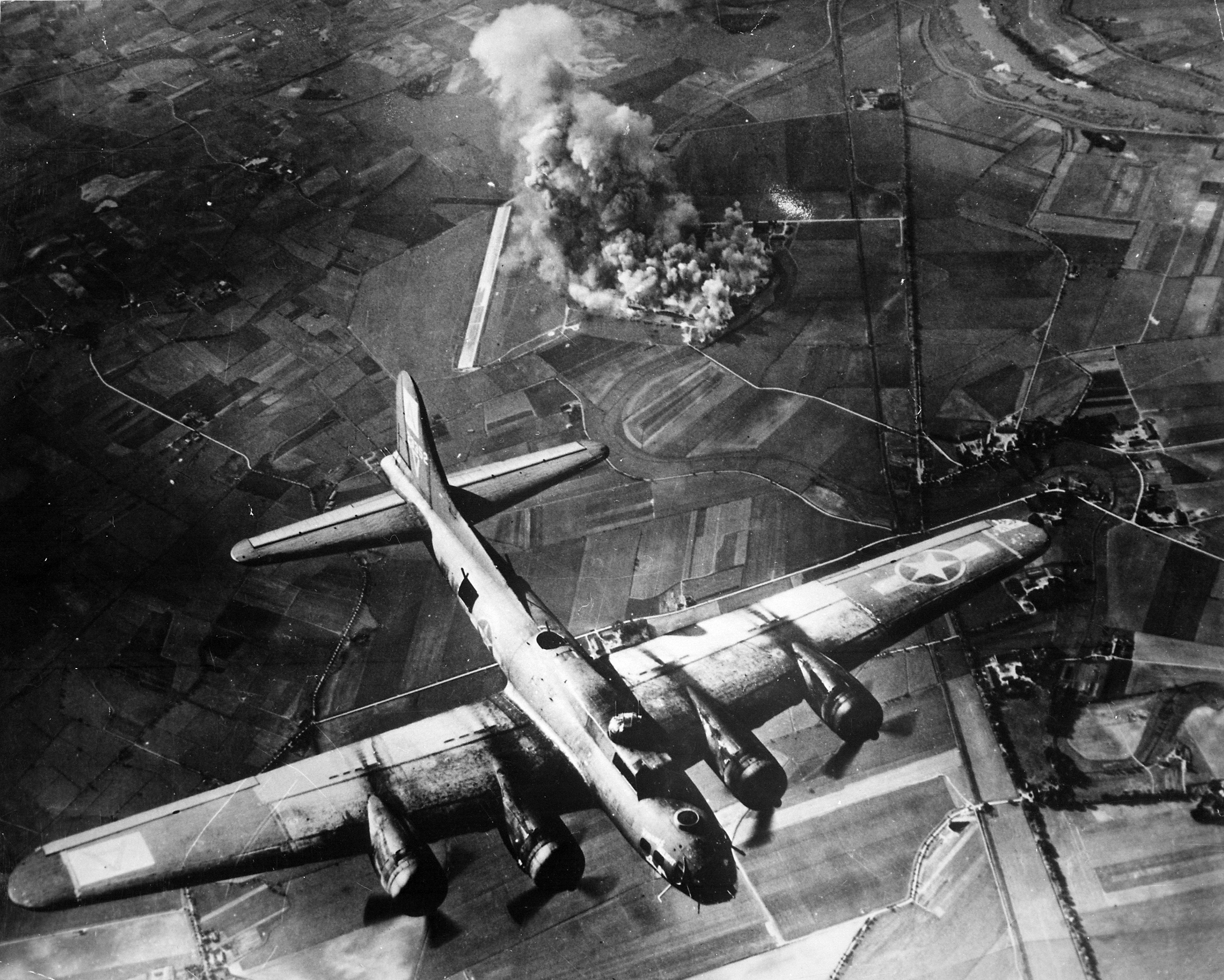 English Captions in Published Books: "CLASSIC precision bombing featured this attack by 100 B-17s on a Focke-Wulf plant at Marienburg on Oct. 9, 1943. Results (above): two assembly buildings (1) gutted; another (2) damaged; hangars (3) gutted; stores and buildings (4) and boiler house (5) destroyed; other buildings (6) damaged. Cost to AAF: 2 B-17s. Pictures at left show target before (top) and during attack (bottom [5 B-17s]).[1]